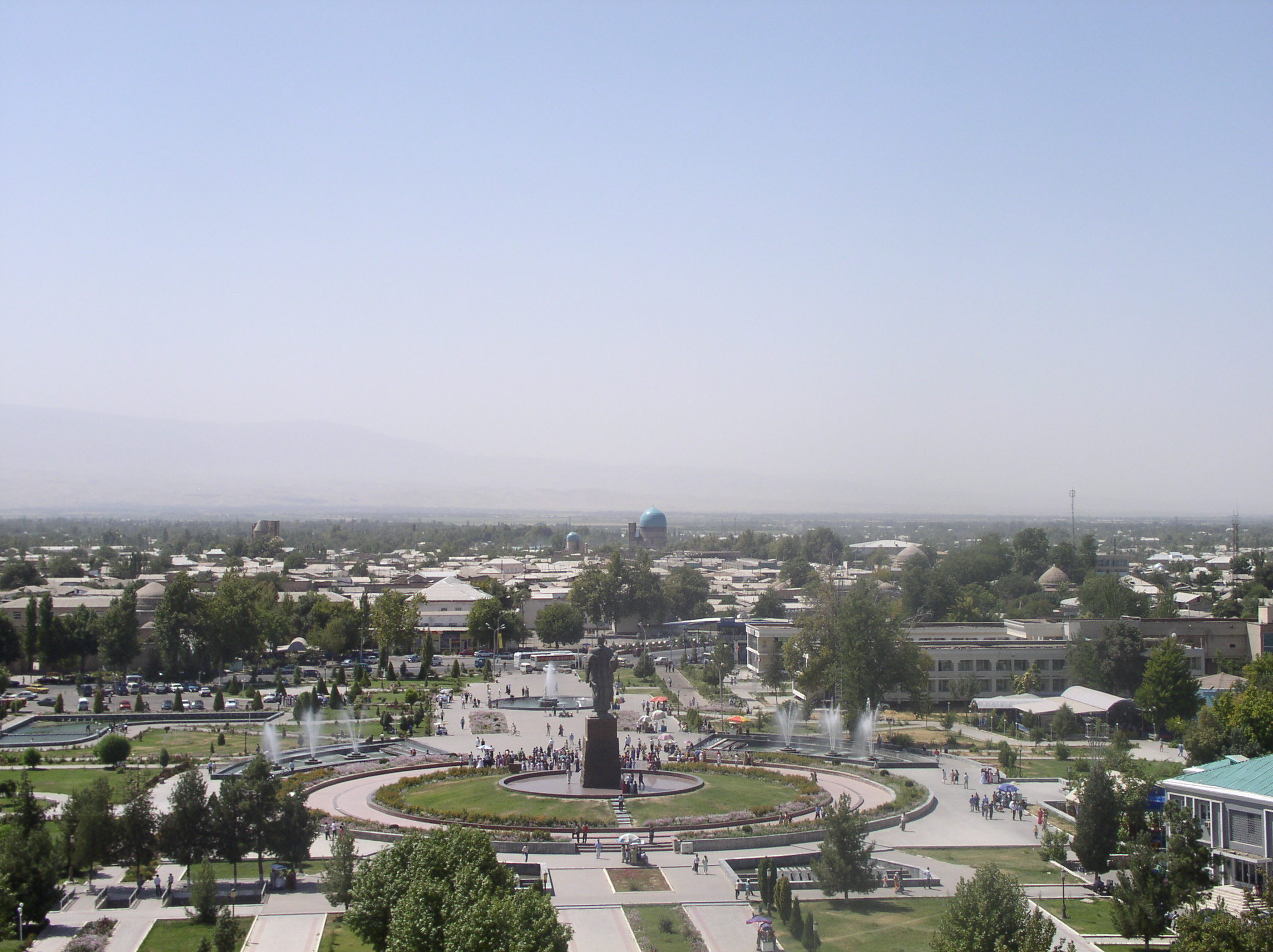 view of the town of Shahrisabz from the top of Aq-Saray palace; one can see Kok-Gumbaz mosque dome, Dorussiadat mausoleum and the statue of Timur